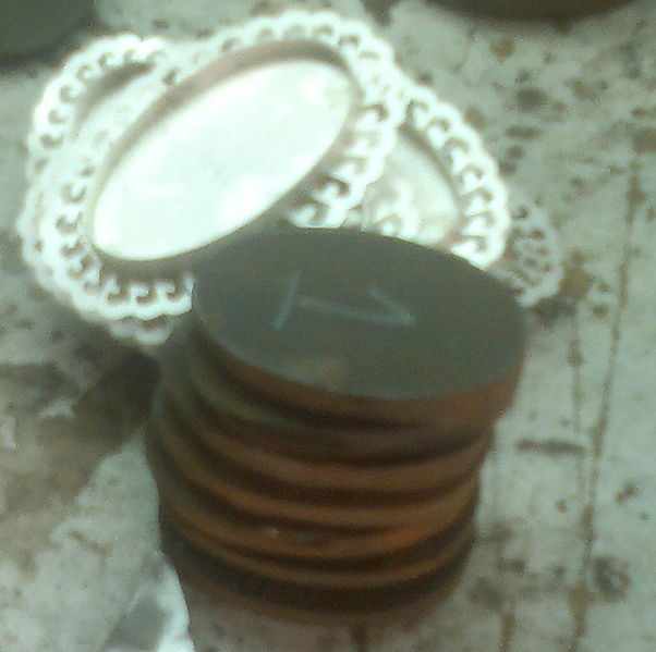 Silver and pieces of Oltu stones for making necklaces. Oltu stone (Turkish: Oltu taşı), aka black amber, is a kind of jet found in the region around Oltu town within Erzurum Province, eastern Turkey. The organic substance is used as semi-precious gem stone in manufacturing jewellery.